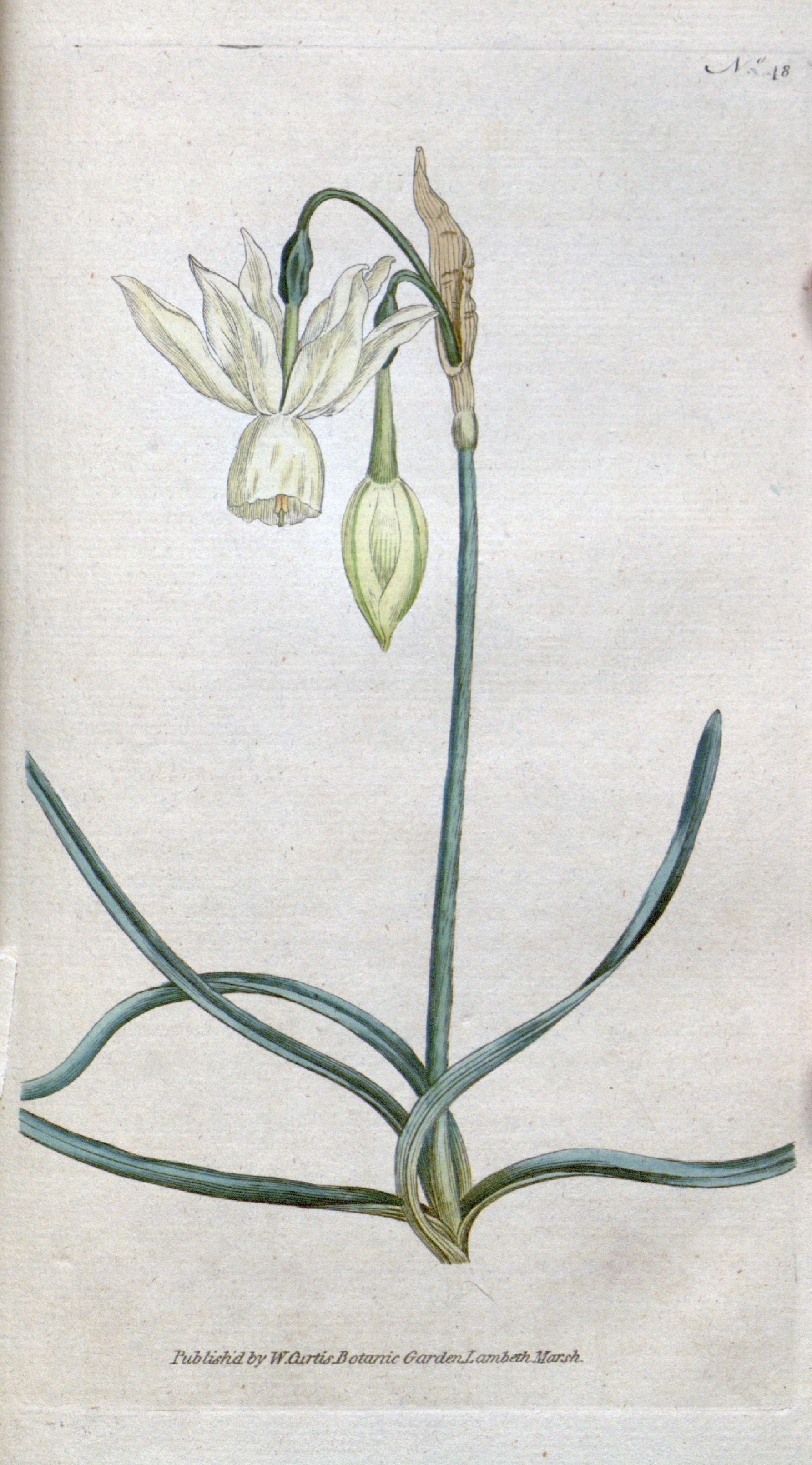 Bot. Mag. 2: t. 48. 1788